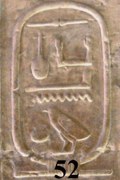 Abydos King List, cartouche n. 52: Neferkamin Anu